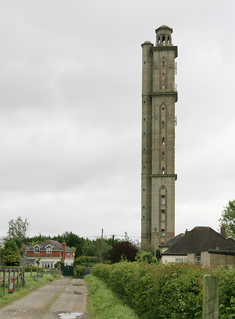 Sway Tower. The tower was built by eccentric Yorkshireman Andrew Peterson in 1879. It is 218 feet tall and built of unreinforced concrete. There are nearly 400 steps in the spiral staircase seen on the left side in the photo.